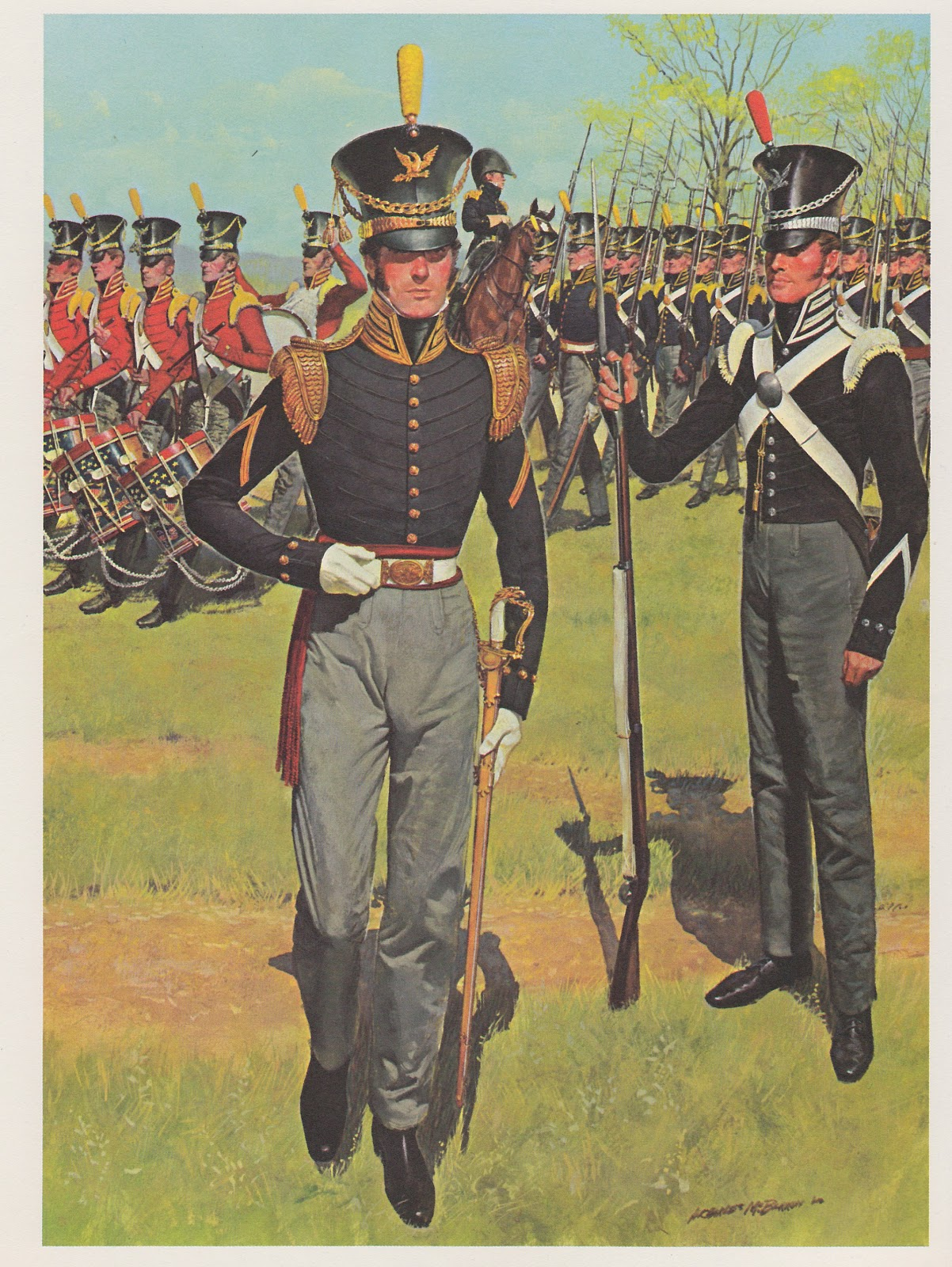 Title: The American Soldier, 1827: Artillery Officer, Infantry Sergeant, Fort Monroe, Va. Artillery School Troops. The Artillery School of Practice appears as it did in 1827. In the center foreground is a captain of artillery; in background is an artillery detachment headed by company musicians.